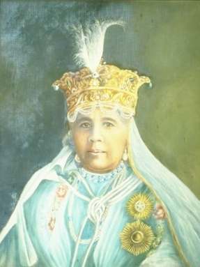 Creator: Norah Grant (active 1910) (artist) Creation Date: Signed and dated 1911 Materials: Oil on canvas Dimensions: 68.6 x 53.4 cm RCIN 403696 Description: Head and shoulders portrait of The Begum of Bhopal, facing slightly to the left, wearing the robes and insignia of the Order of the Star of India; she is wearing an elaborately chased gold headdress, looped at the front with pearls.